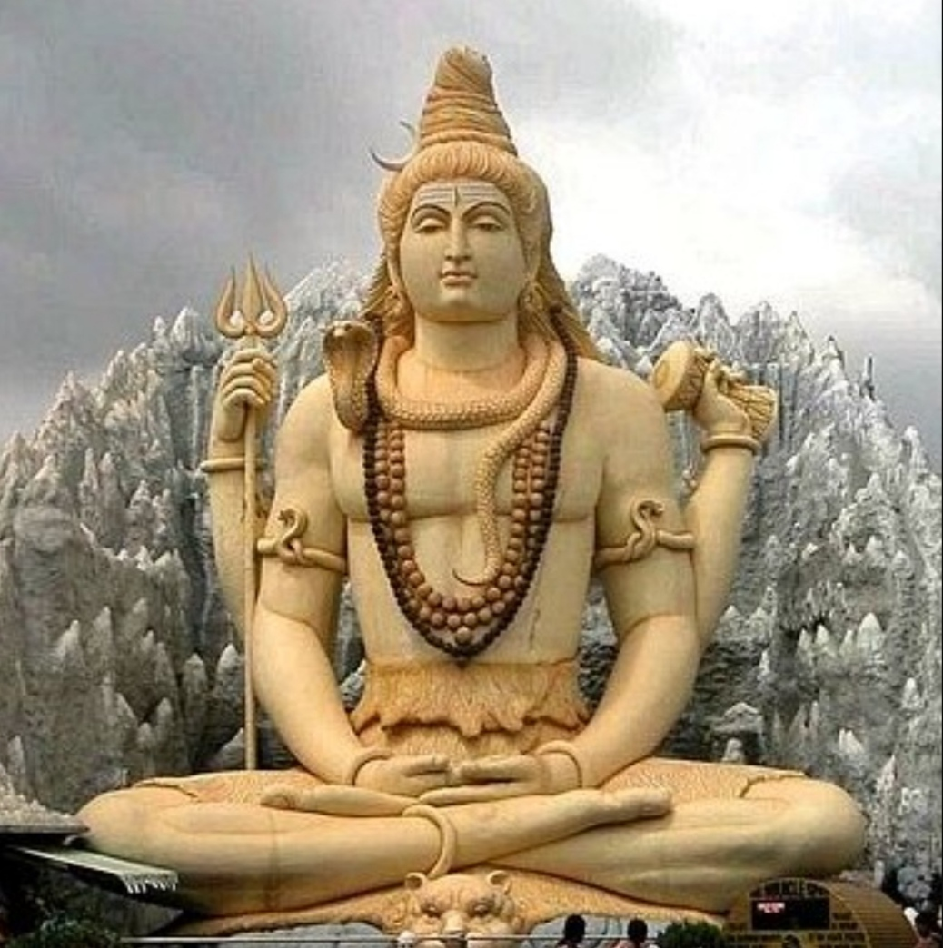 A beautiful sculpture of lord shiva with backgorung as mountain.